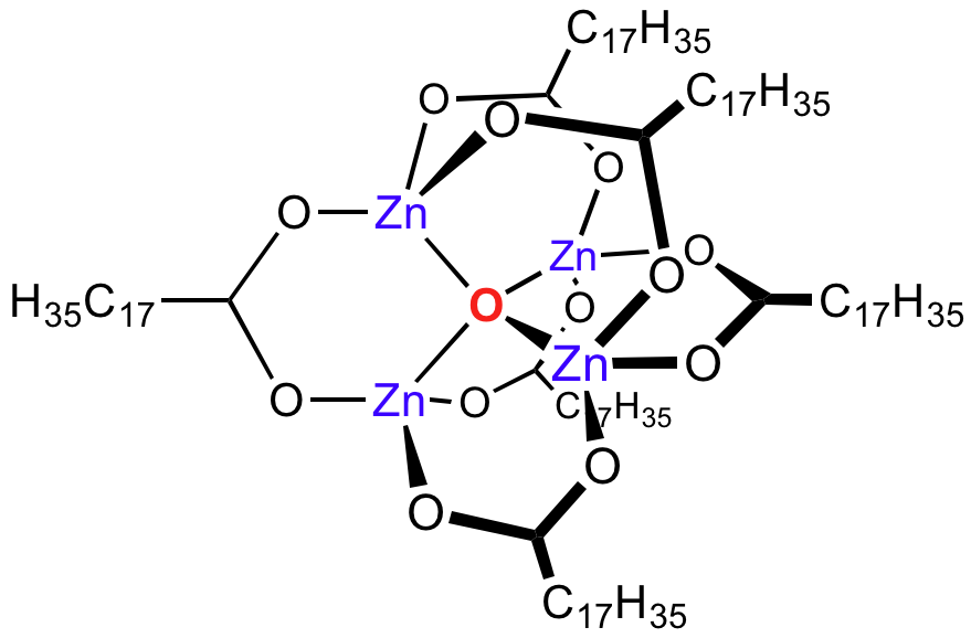 likely structure of zinc stearate (no crystal data)